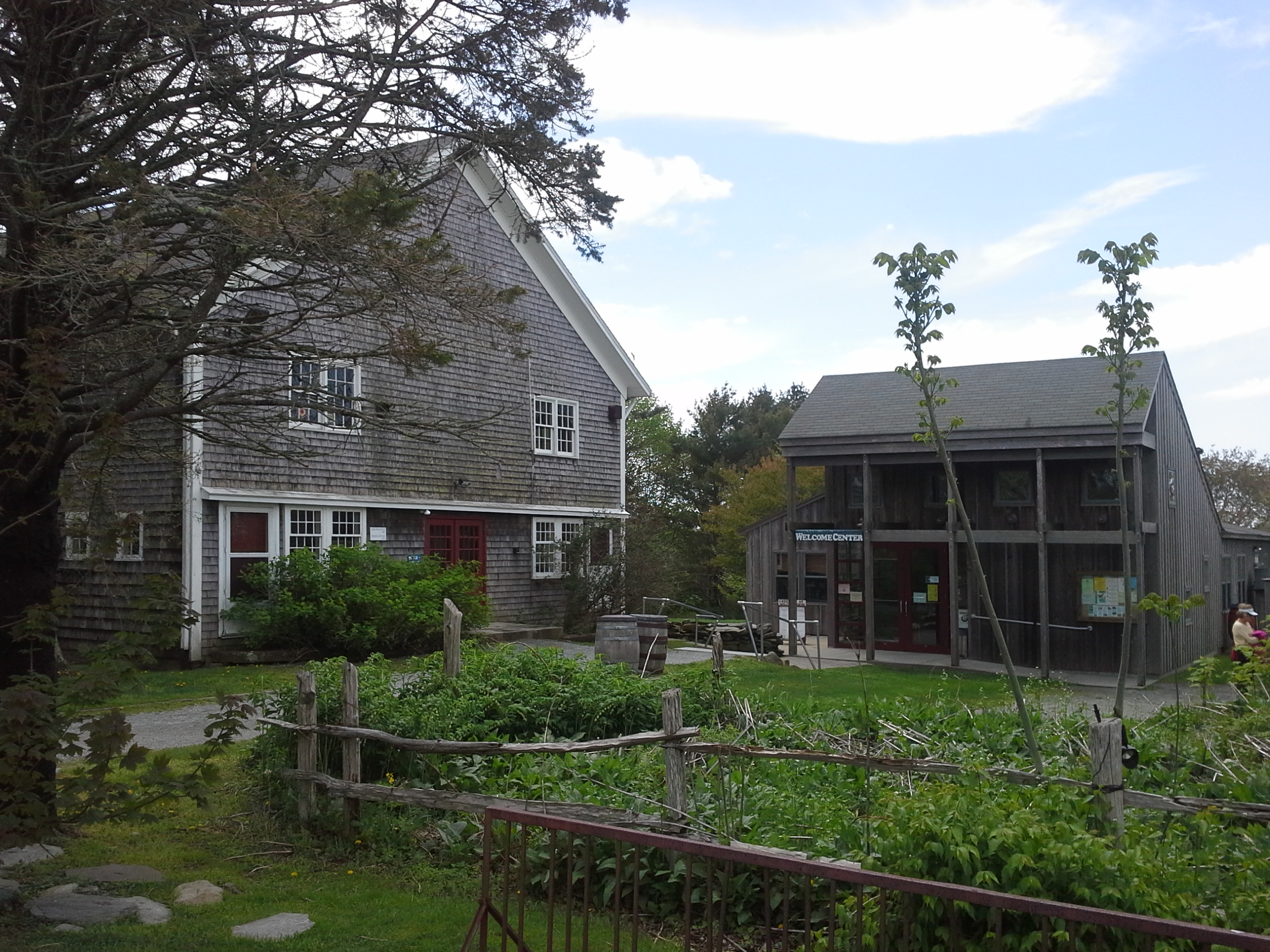 Norman Bird Sanctuary in Middletown, Rhode Island